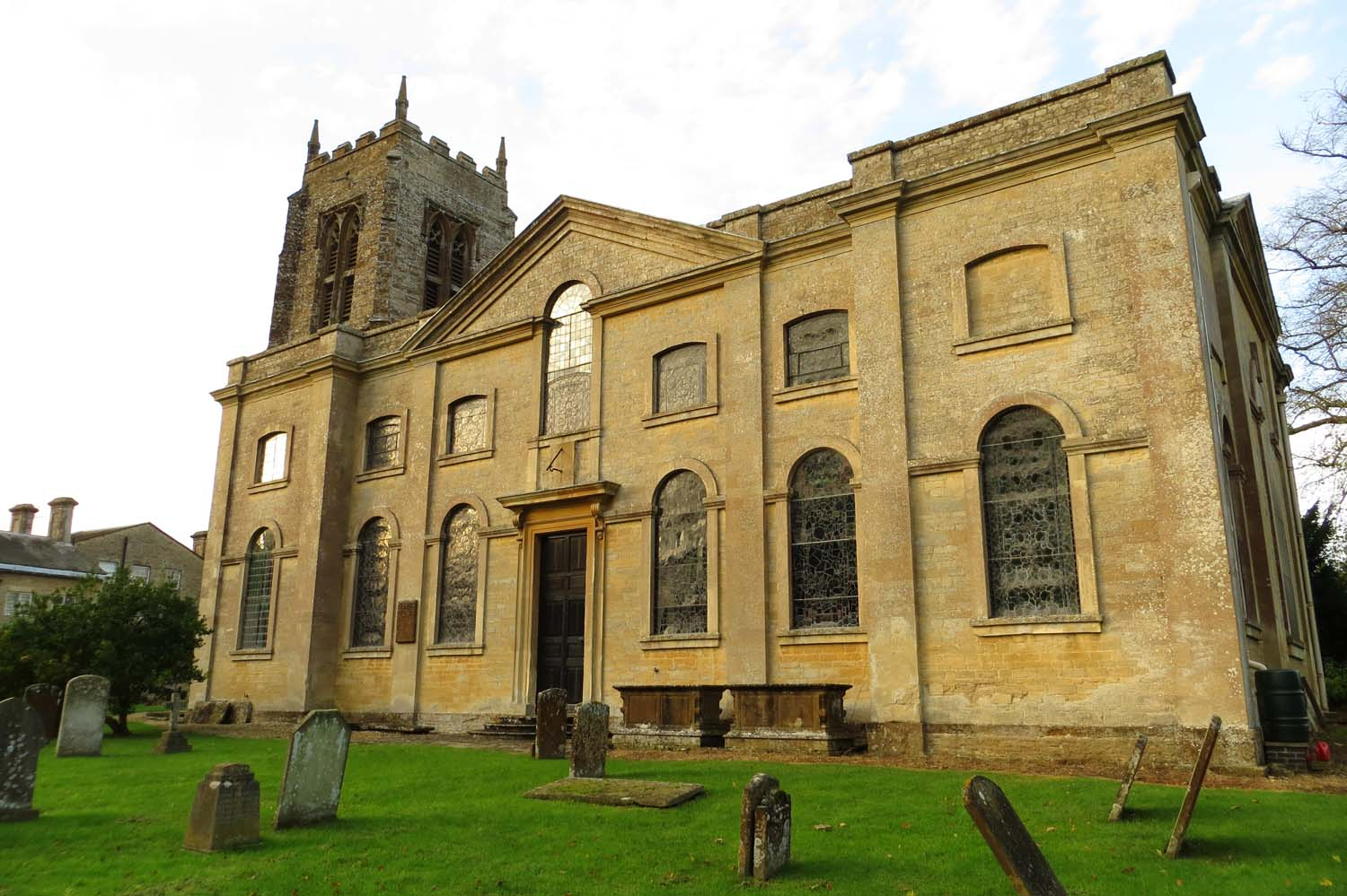 St Michael's parish church, Aynho, Northamptonshire, seen from the southeast